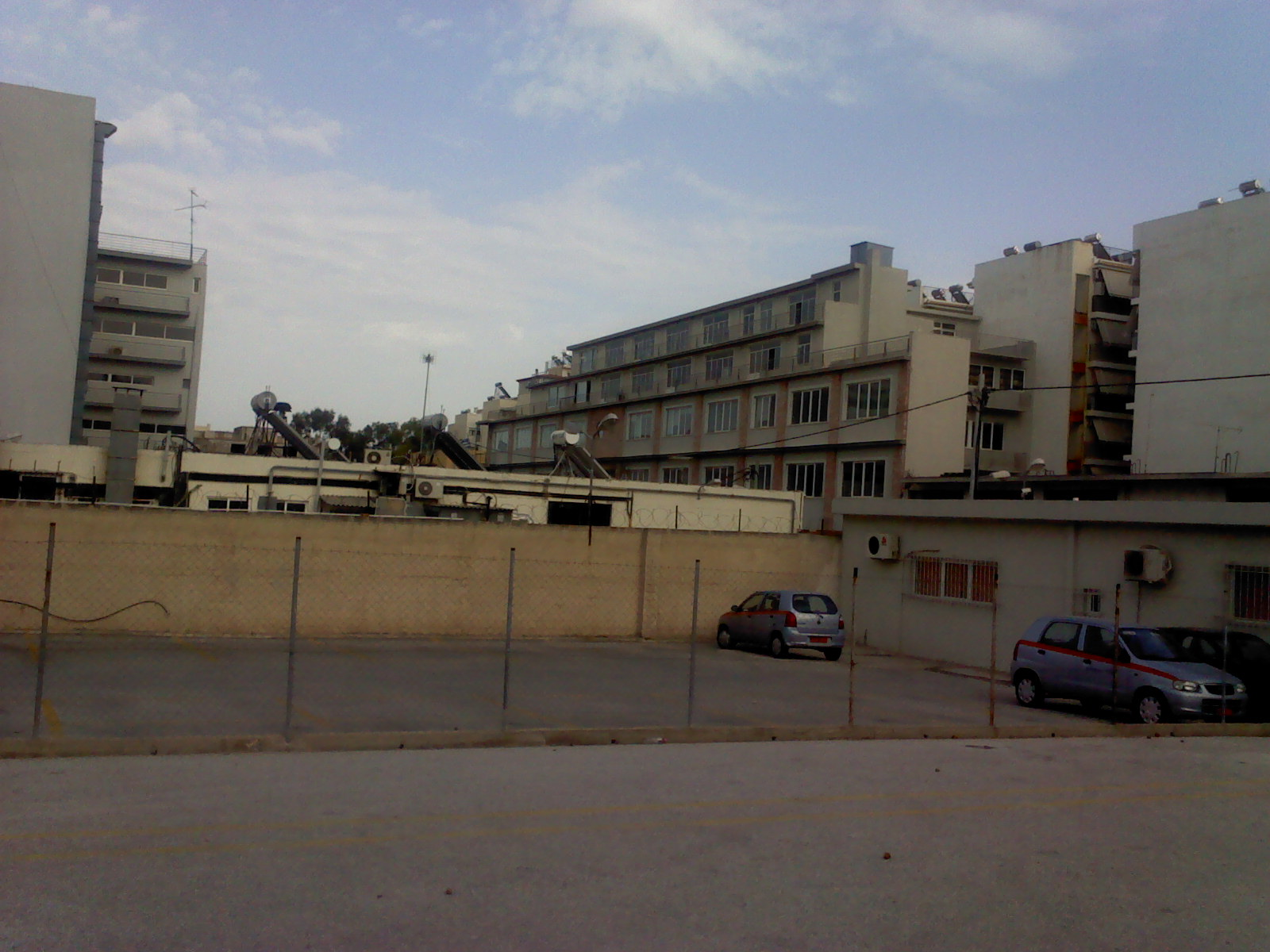 Bourla Nomarxia